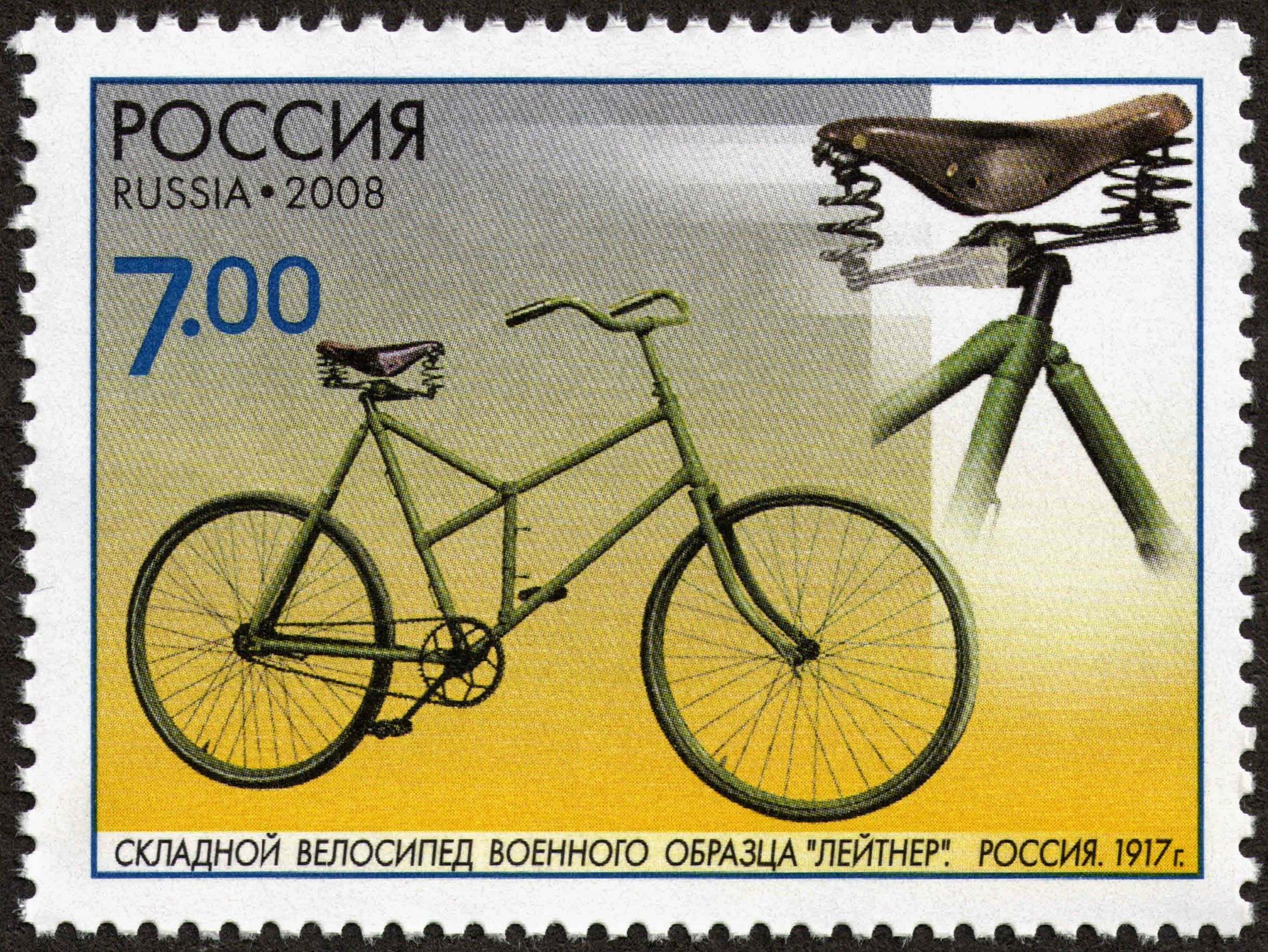 The monuments of science and technique. Bicycles.The folding bicycle Leitner for cycling infantry units. Russia. 1917. Aleksandr Leytner’s Factory of Bicycles and Cars Rossiya (Riga). The stamp of Russia, 7.00 Rubles, 11 December 2008, PTC Marka Catalogue No 1286, Michel No 1518. Coated paper. Offset printing. Perforation: comb 12:11½. Size of the stamp: 50×37 mm. Print run: 800,000.